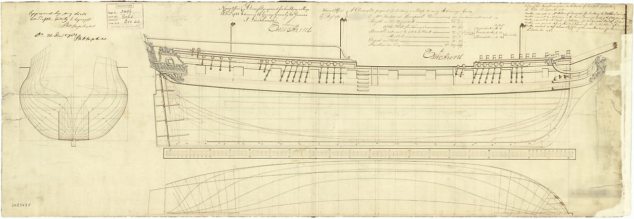 Cormorant (captured 1796) Scale: 1:48. Plan showing the body plan, sheer lines with inboard detail and figurehead, and longitudinal half-breadth for Cormorant (captured 1796), a captured French Corvette, as taken off prior to being fitted as a 20 gun Sixth Rate Corvette. The plan has the ship under her original French name of Etna, which was changed on 27 December 1796. The plan also indicates the centre lines for masts of the captured Bonne Citoyenne (1796), fitted as a 20 gun Ship Sloop (later a Sixth Rate Corvette). Signed by Edward Tippet [Master Shipwright, Portsmouth Dockyard, 1793-1799]. ETNA FL.1796 [FRENCH]